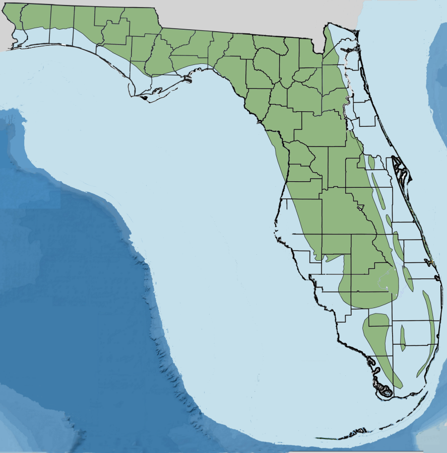 Depiction of Florida during the Zanclean of the Pliocene ~5.3 to 3.6 million years ago. A recreation of sketches by Edward Petuch, Ph.D., Florida Atlantic University, Department of Geosciences. E. Petuch Website